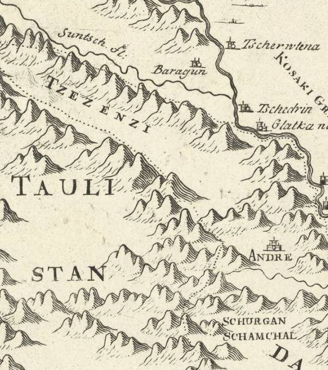 Kumyk settlement Boragan on the Map of Johann Gustav Gaerber, 1728